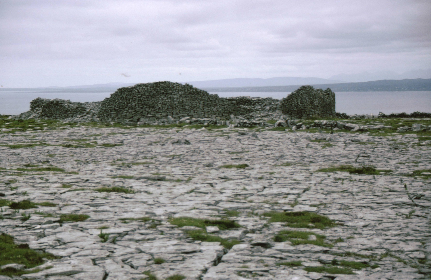 Cathair Dhúin Irghuis